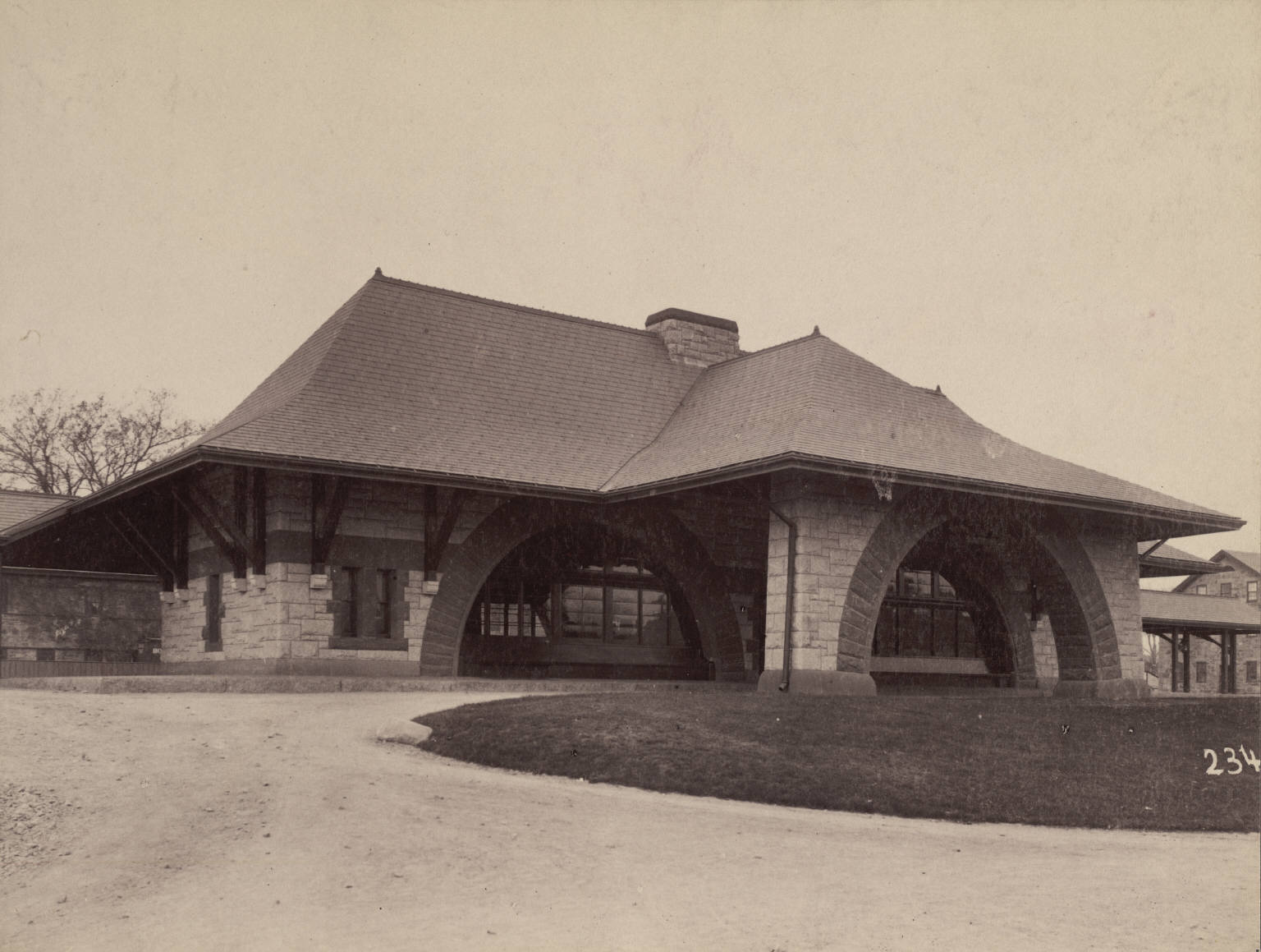 Collection: A. D. White Architectural Photographs, Cornell University Library Accession Number: 15/5/3090.00213 Title: Old Colony Railroad Station Architect: Henry Hobson Richardson (American, 1838-1886) Landscapes architect: Frederick Law Olmsted (American, 1822-1903) Building Date: 1882-1884 Photograph date: ca. 1884-ca. 1895 Location: North and Central America: United States; Massachusetts, North Easton Materials: albumen print Image: 5 7/8 x 7 5/8 in.; 14.9225 x 19.3675 cm Style: Richardsonian Romanesque; Romanesque Revival Provenance: Transfer from the College of Architecture, Art and Planning Persistent URI: [1] There are no known U.S. copyright restrictions on this image. The digital file is owned by the Cornell University Library which is making it freely available with the request that, when possible, the Library be credited as its source. We had some help with the geocoding from Web Services by Yahoo!